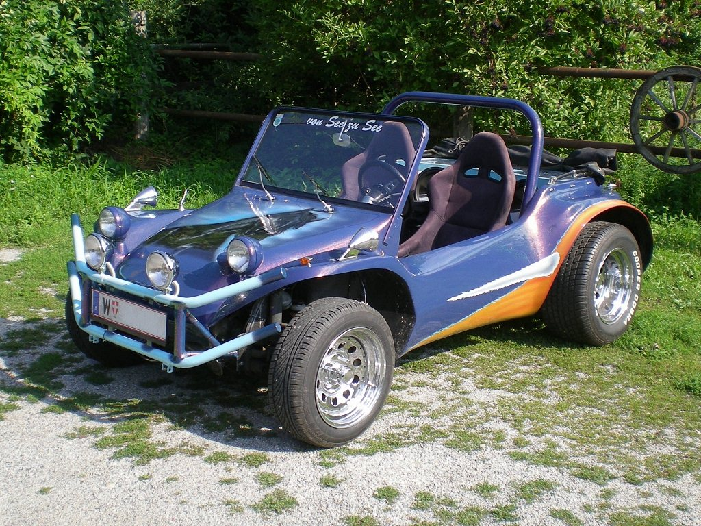 Ledl Europa 2001 Buggy, taken at the event “Bobby’s Buggy Party” in the Lobau in Vienna, Austria